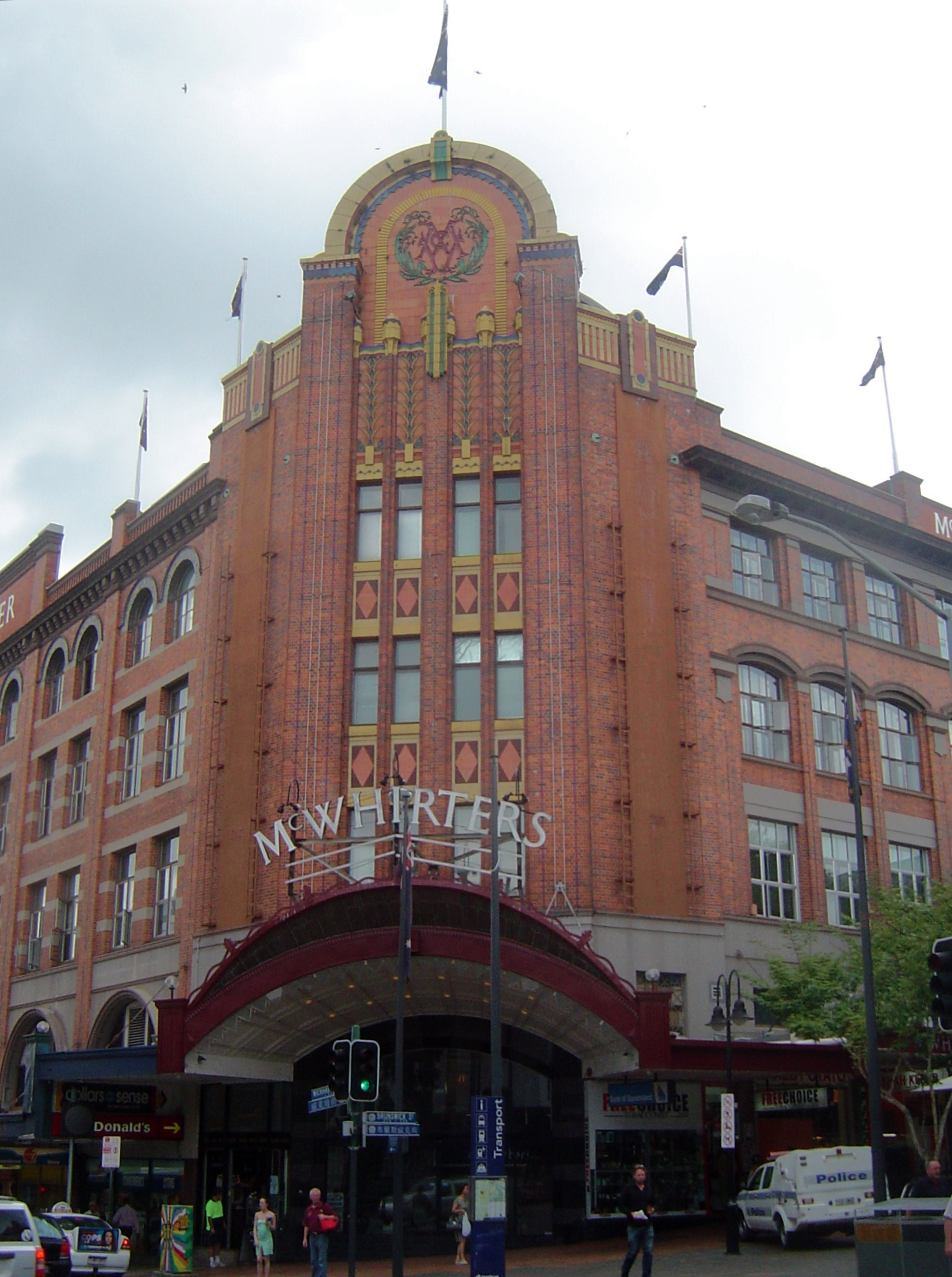 Photo of McWhirters Shopping Centre entrance, in Fortitude Valley, Queensland